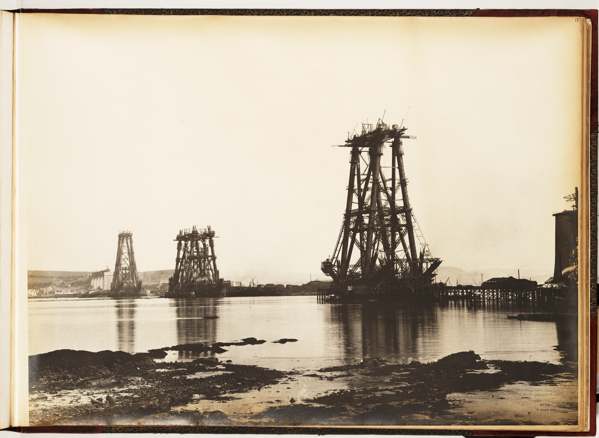 Photograph of general view of the Forth Bridge under construction. We have here a view taken late in the evening, which accounts for the smoothness of the water and the depth of the shadows. This view is chiefly remarkable for effect, much detail at the base of the cantilevers being lost. The picture embraces the whole of bridge up to date, north of south cantilever and on a considerable scale. Transcription from: Philip Phillips, 'The Forth Railway Bridge', Edinburgh, 1890.